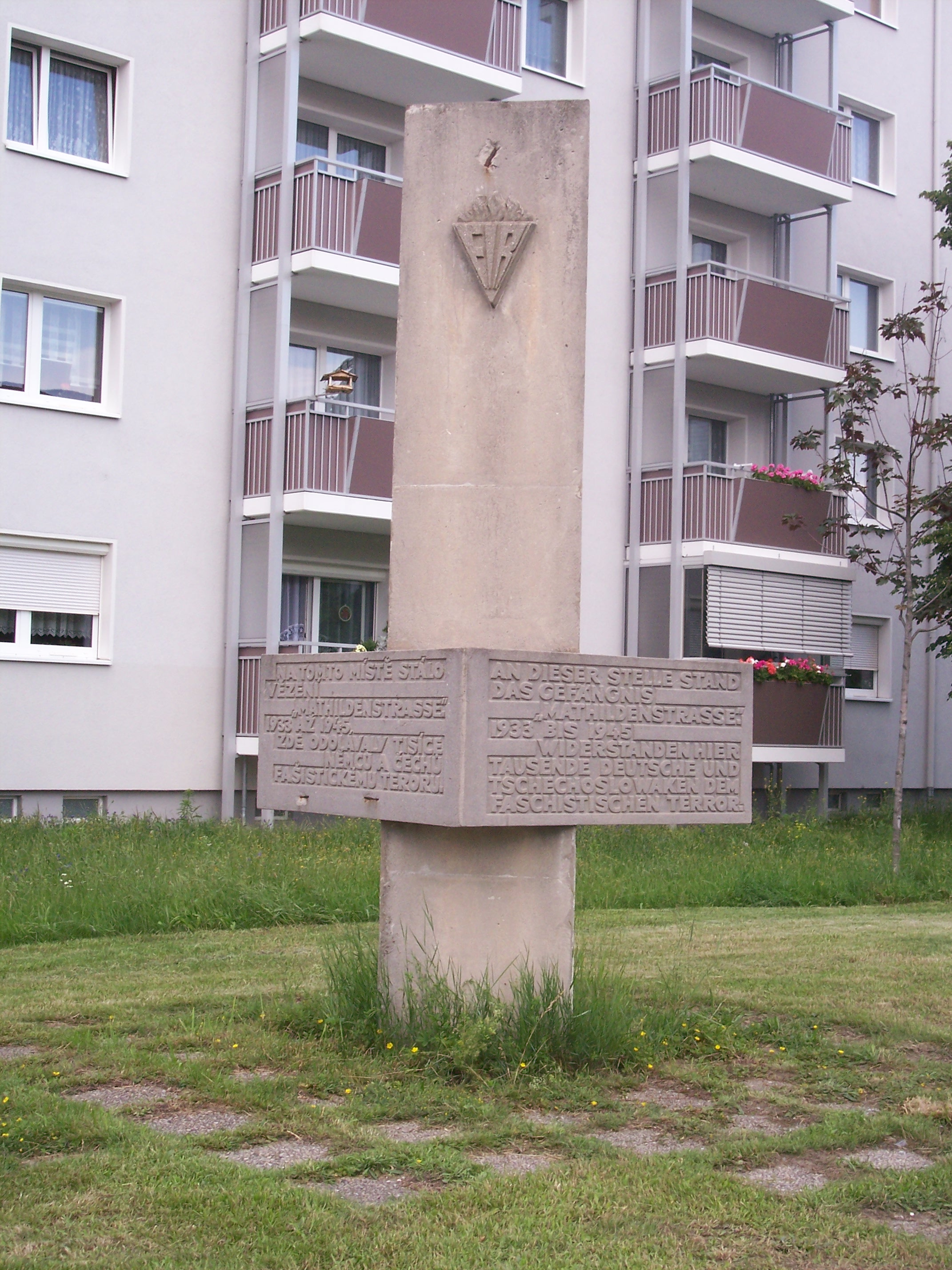 Memorial of the “Fédération Internationale des Résistants” for members of the resistance to Nazi Germany who were imprisoned at this prison “Mathildenstraße”